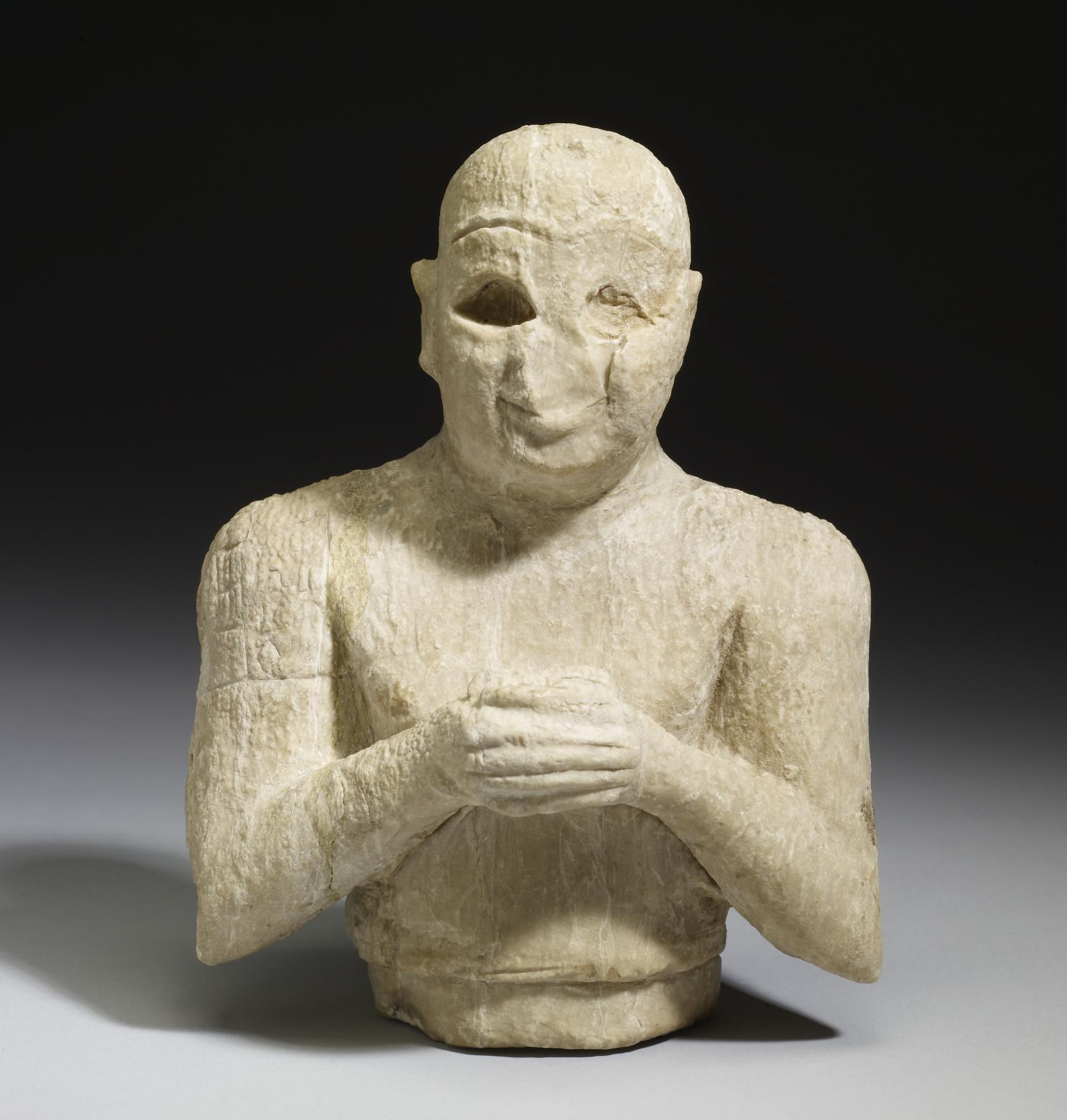 The shaven head, a sign of ritual purity, may identify this figure as a priest. A partially preserved inscription on one shoulder states that he prays to Ninshubur, the goddess associated with the planet Mercury.